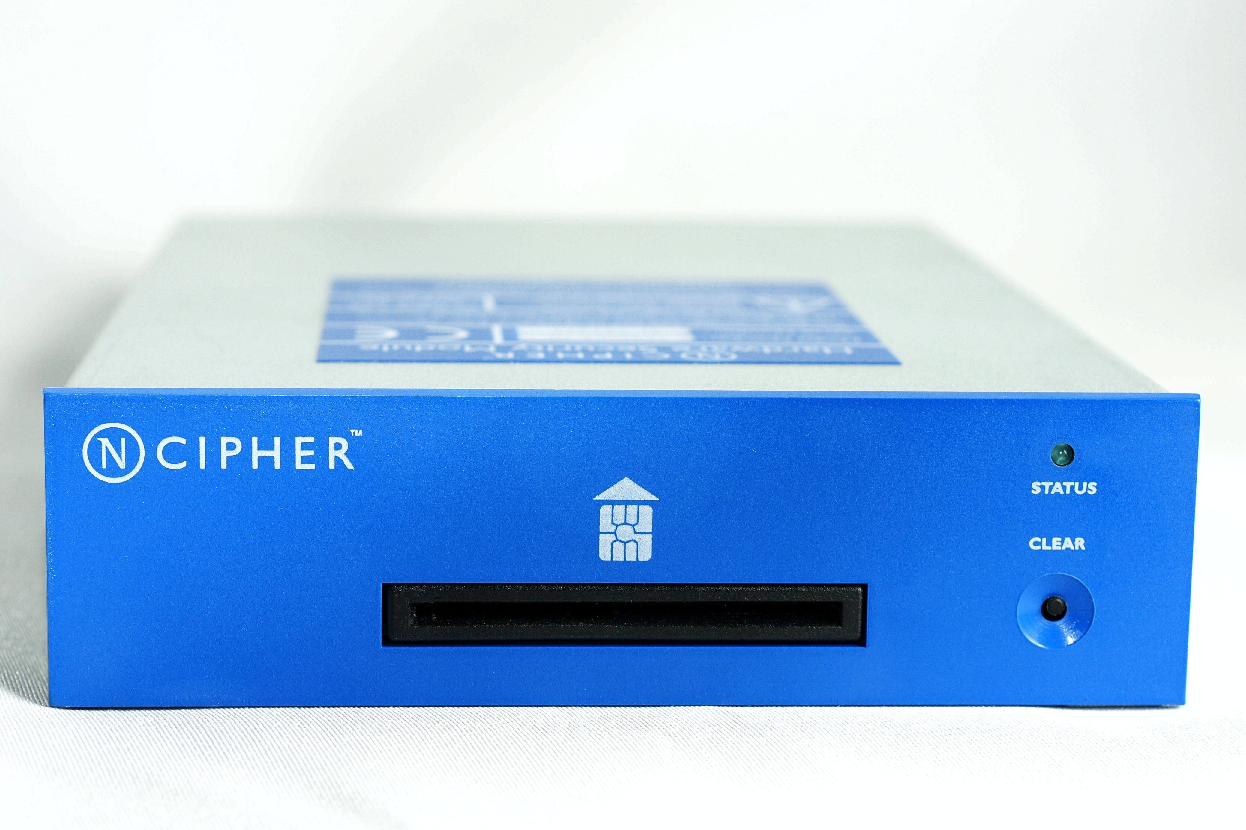 A SCSI-based nCipher Hardware Security Module